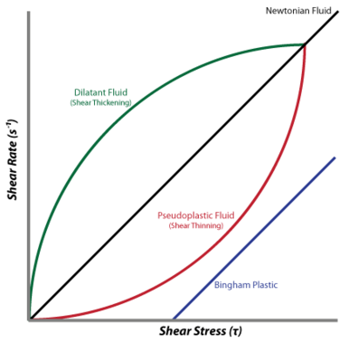 Shear rate dependency on fluid type and applied shear stress.